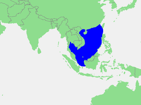 =South China Sea